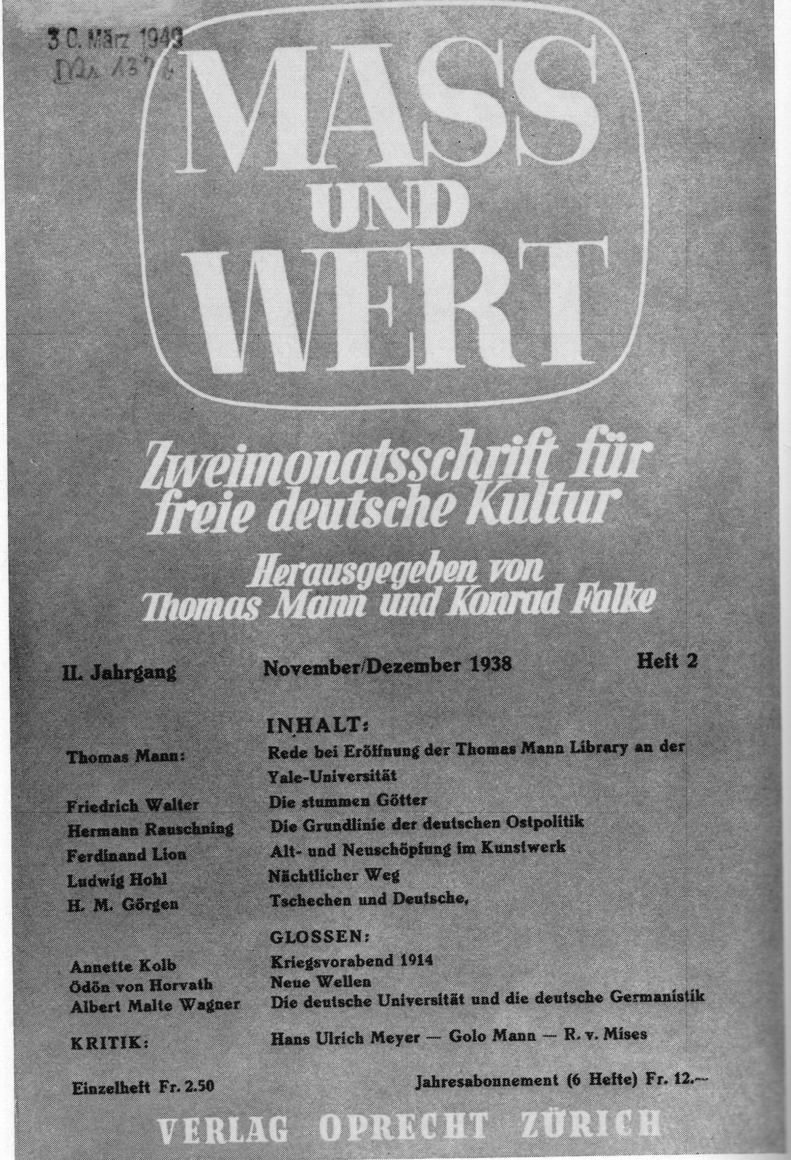 "Mass und Wert" September 1933 Cover Magazine of German exil writers in Zurich Photograph taken by me of an original issue in my possession